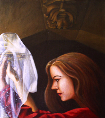 "She came thru the room carrying the most wondrous thing", a 2004 oil painting by artist Herb Roe showing the Grail Maiden of Arthurian Legend.